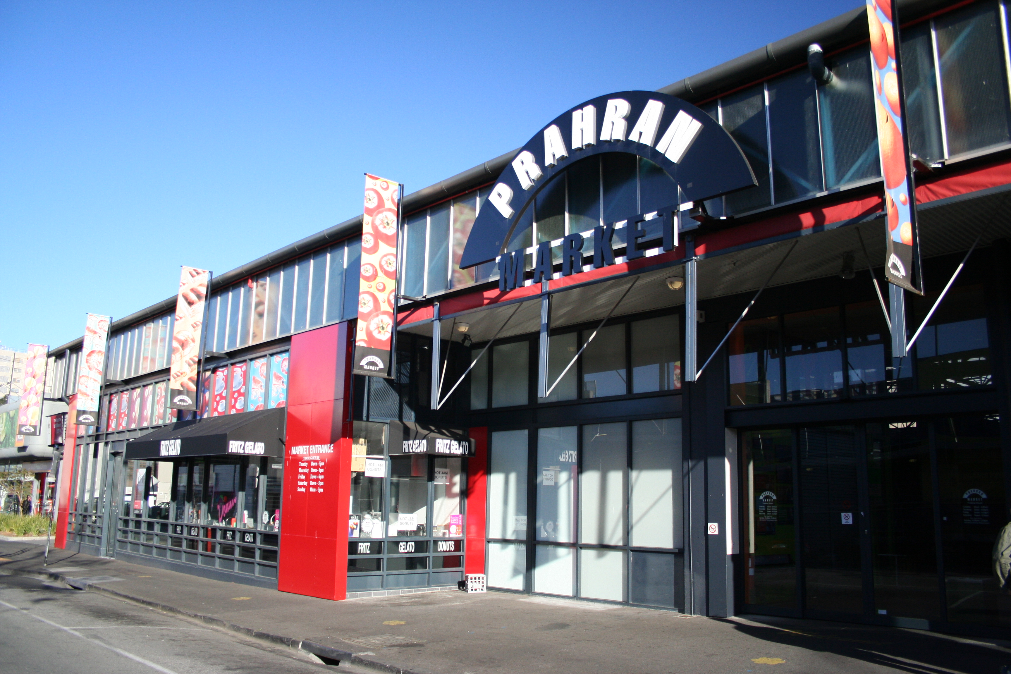 Prahran Market, Prahran, Victoria, Australia - north side